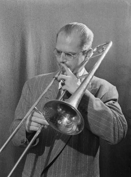 Caption from Down Beat: For two consecutive years Bill Harris has been selected as the No. 1 trombone player of the country in the annual Down Beat poll. He posed twice for the current cover, once to permit staff lensman Bill Gottlieb to shoot the bell of his horn for a background, then unsmilingly for the photo itself. Bill may go to Milwaukee next month with the Charlie Ventura unit to open at the Continental club there on May 5